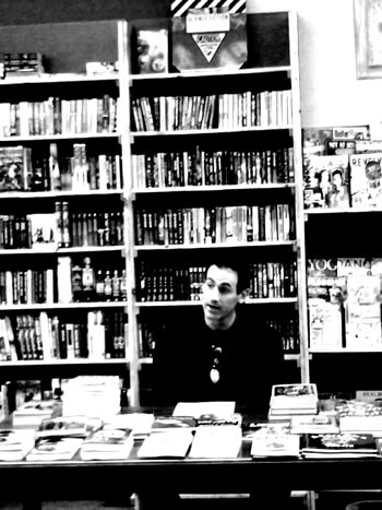 This is a photograph I shot of D. Harlan Wilson during a reading at Backlist Books in Massillon, Ohio.